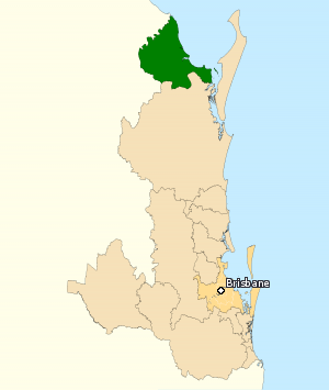 This image incorporates data that is: © Commonwealth of Australia (Australian Electoral Commission) 2009 Division of Hinkler 2010